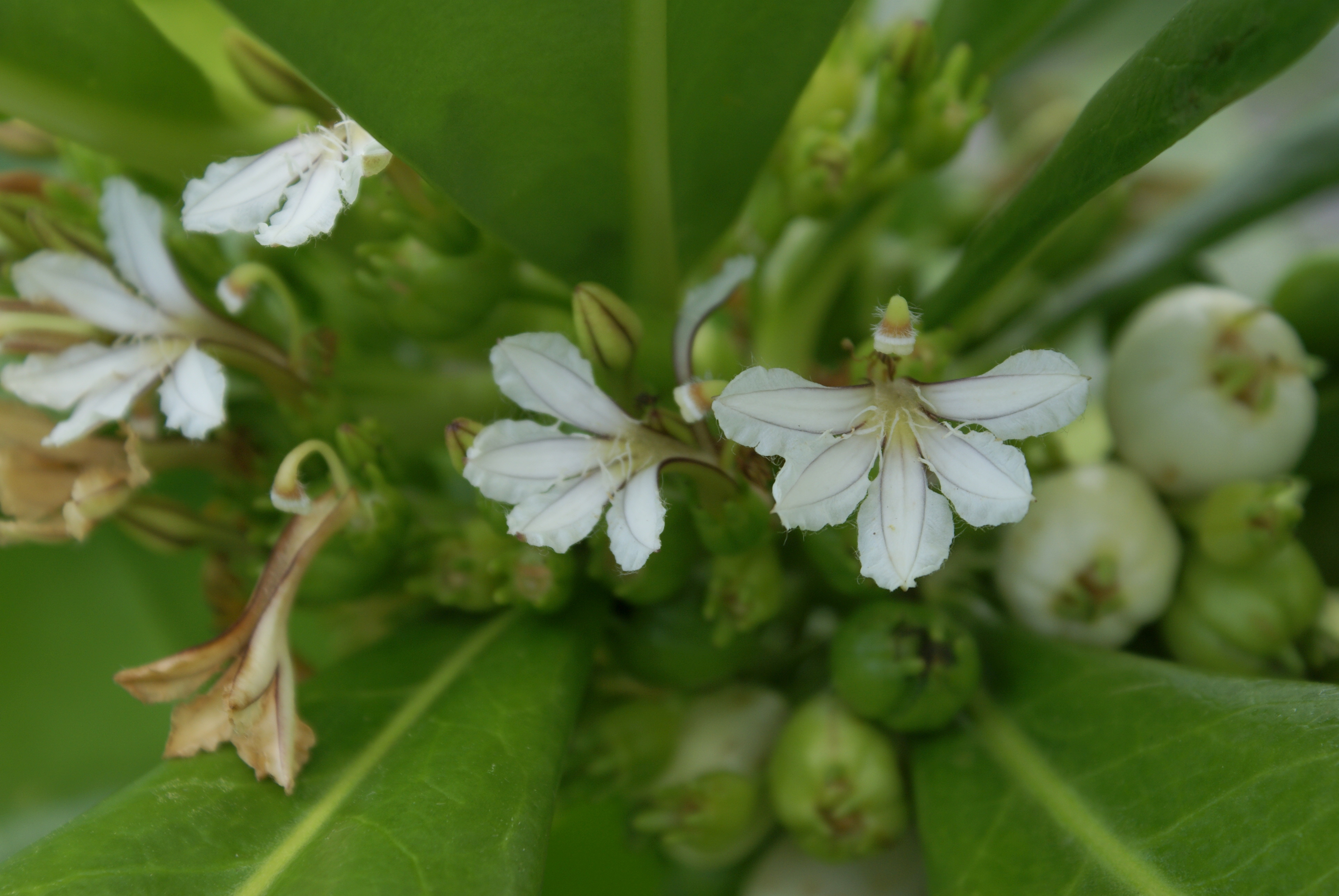 Flowers of Scaevola taccada, on Réunion island